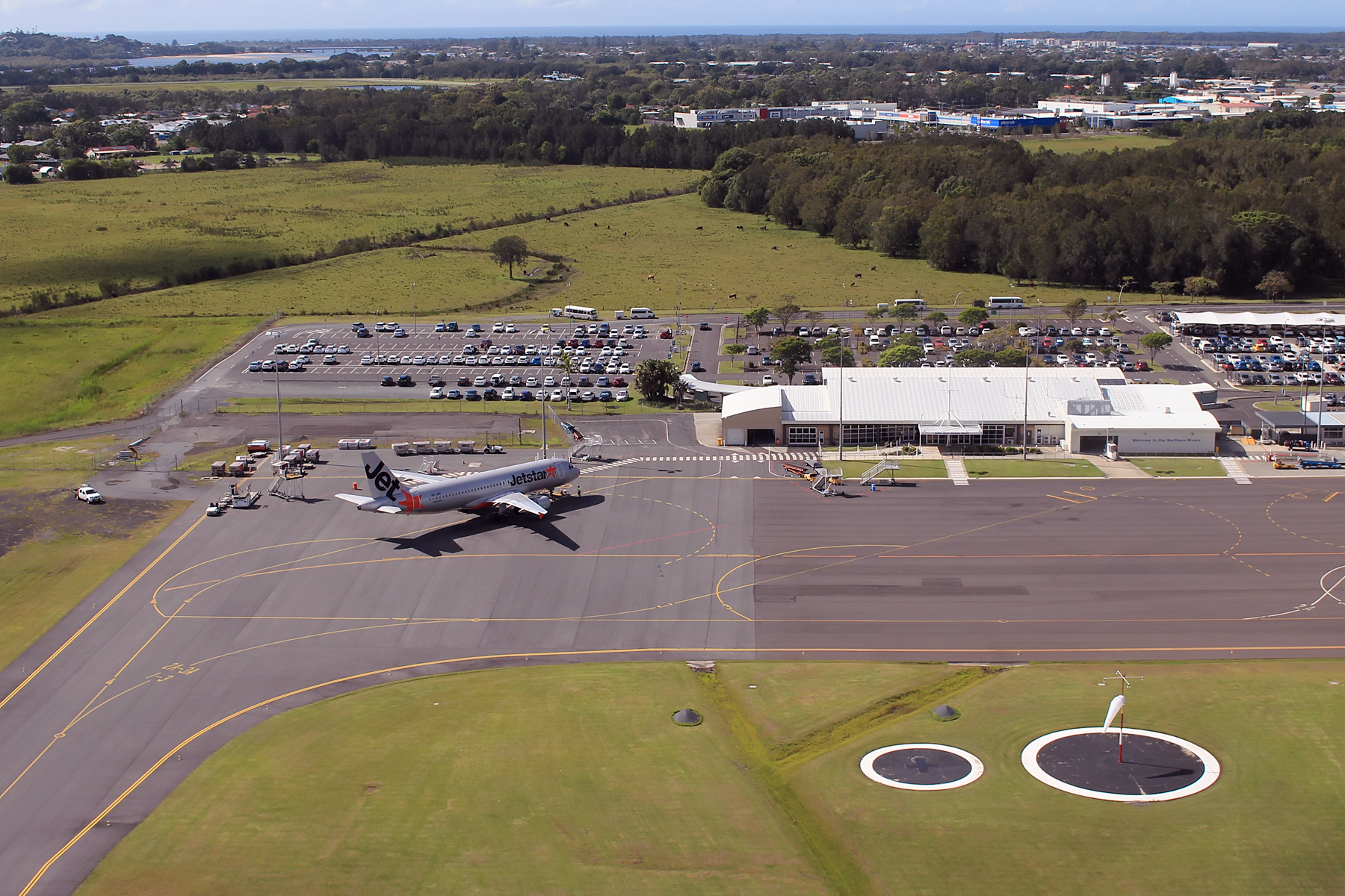 Ballina Byron Gateway Airport terminal and Jetstar Airbus A320 at the eastern gate.